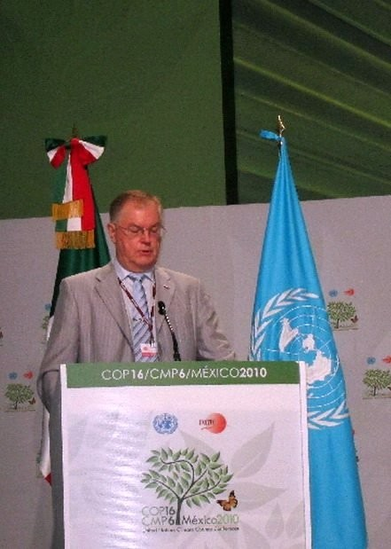 Alexander Bedritsky is the President Emeritus of the World Meteorological Organization, he has held the position of president from 2003 to 2011. In 2009 he was appointed as President Dmitry Medvedev's advisor on climate change.